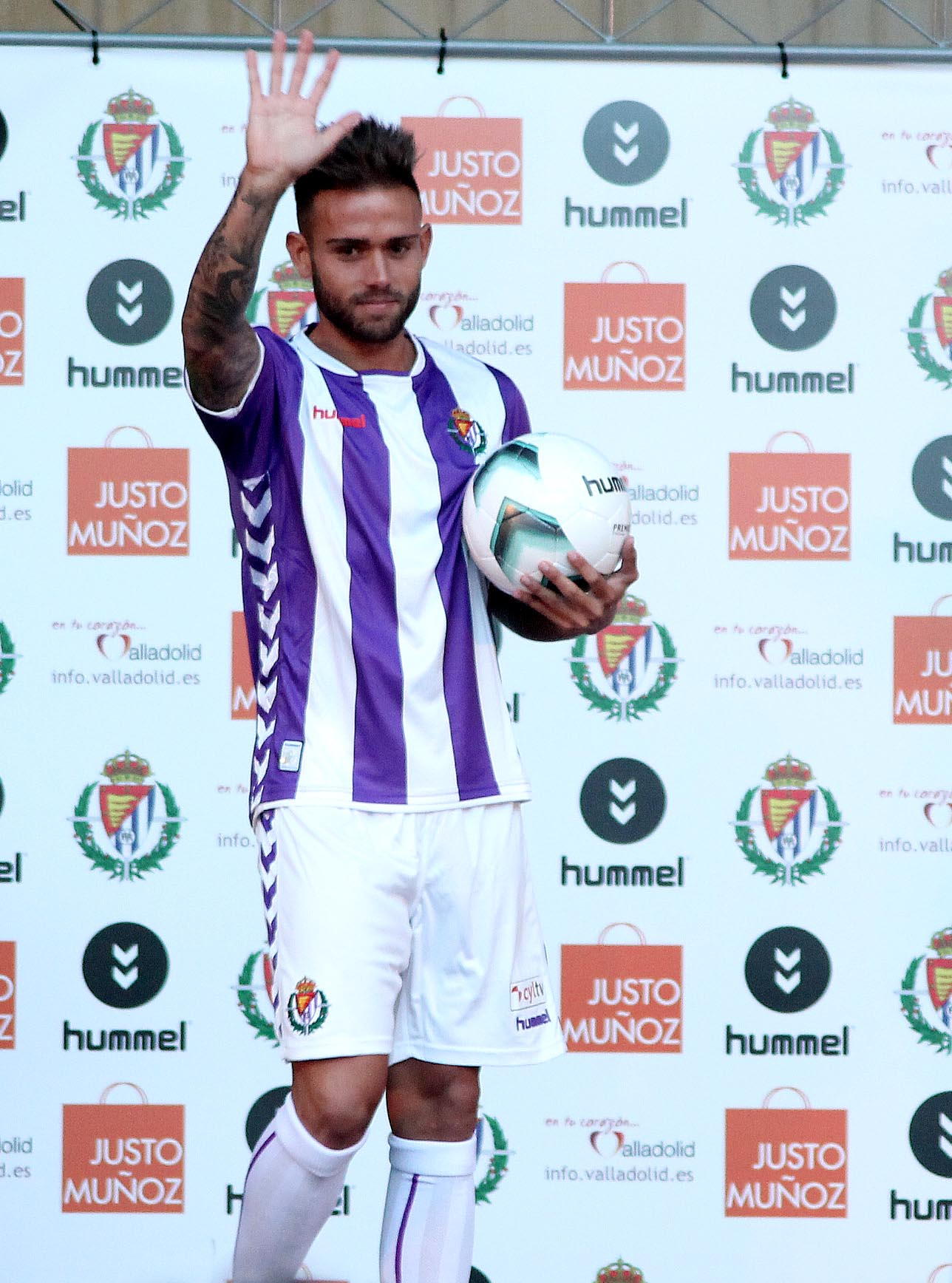 Roger Martí, Spanish football player.